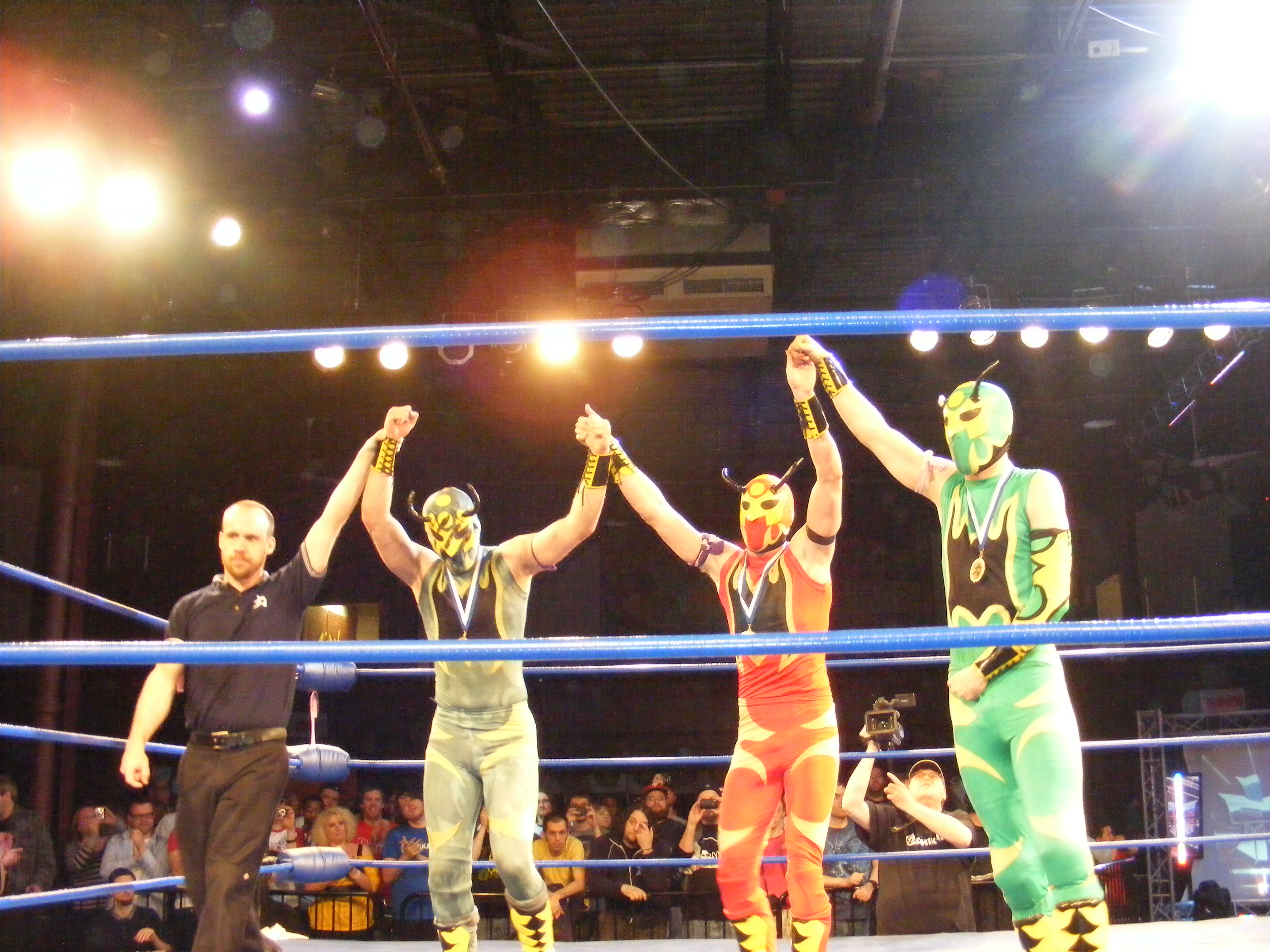 Professional wrestling group The Colony celebrating their 2011 King of Trios victory.